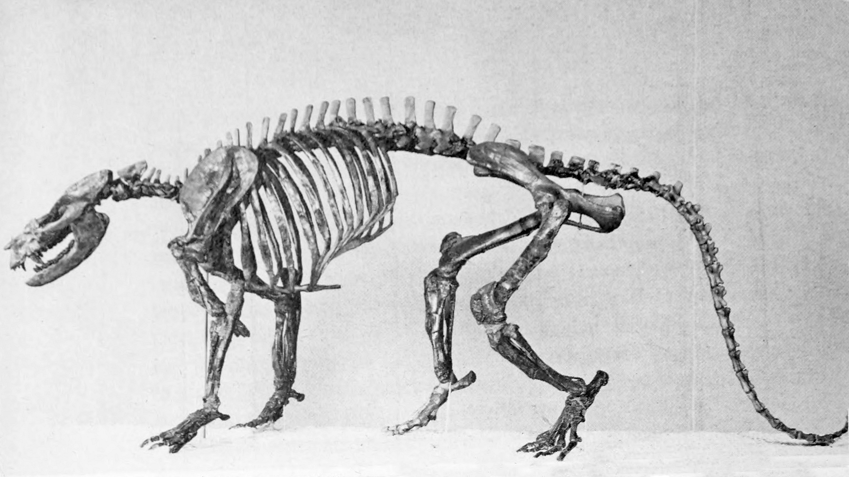 The prehistoric mammal Ectoconus